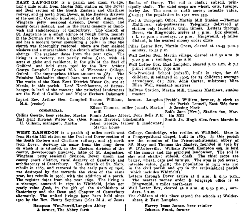 Langdon, East and West in Kent, England, from Kelly's Directory of Kent 1913.